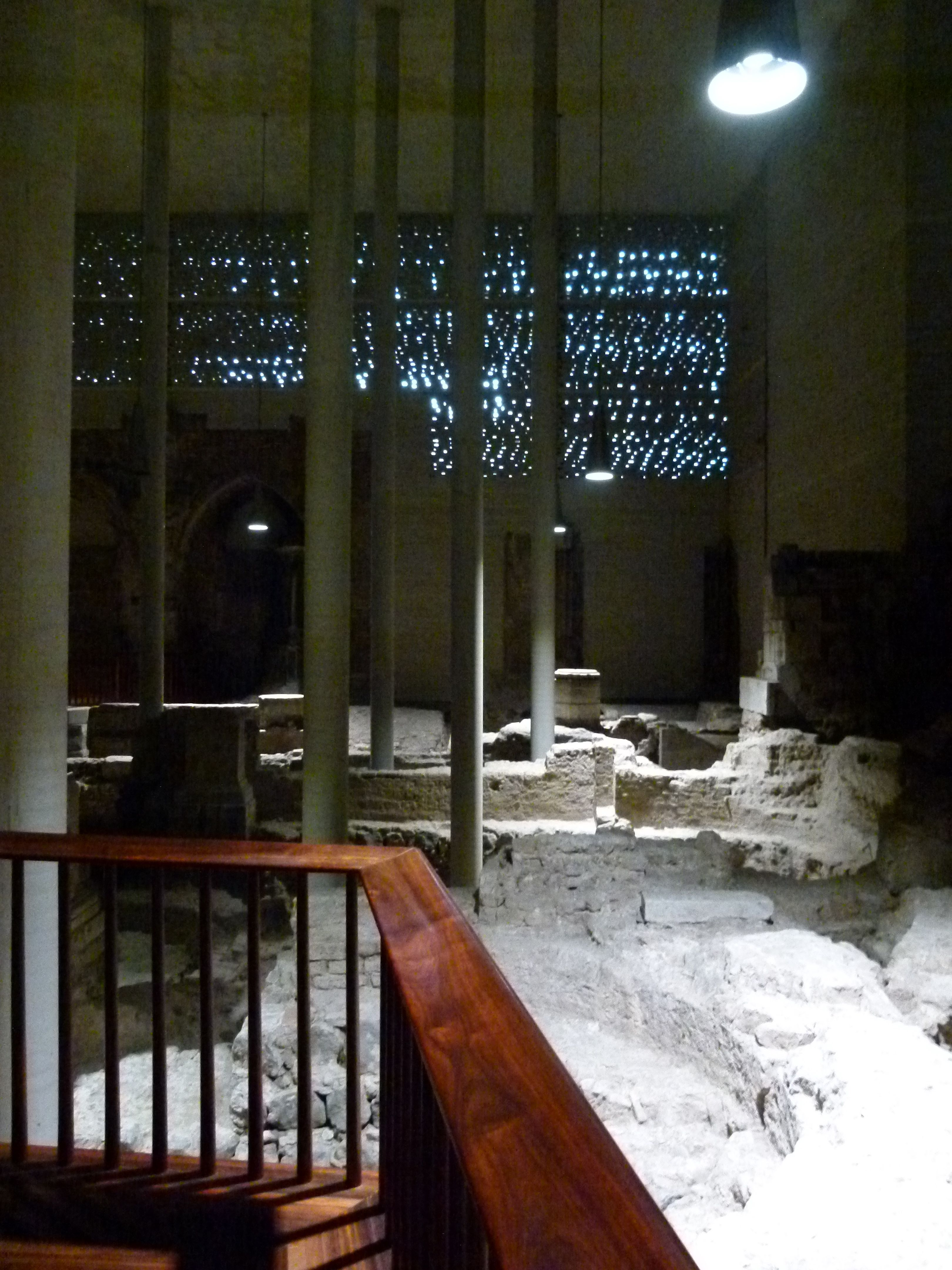 Excavations of St. Columba Church, bombed in World War II, now part of Museum Kolumba in Cologne, Germany.